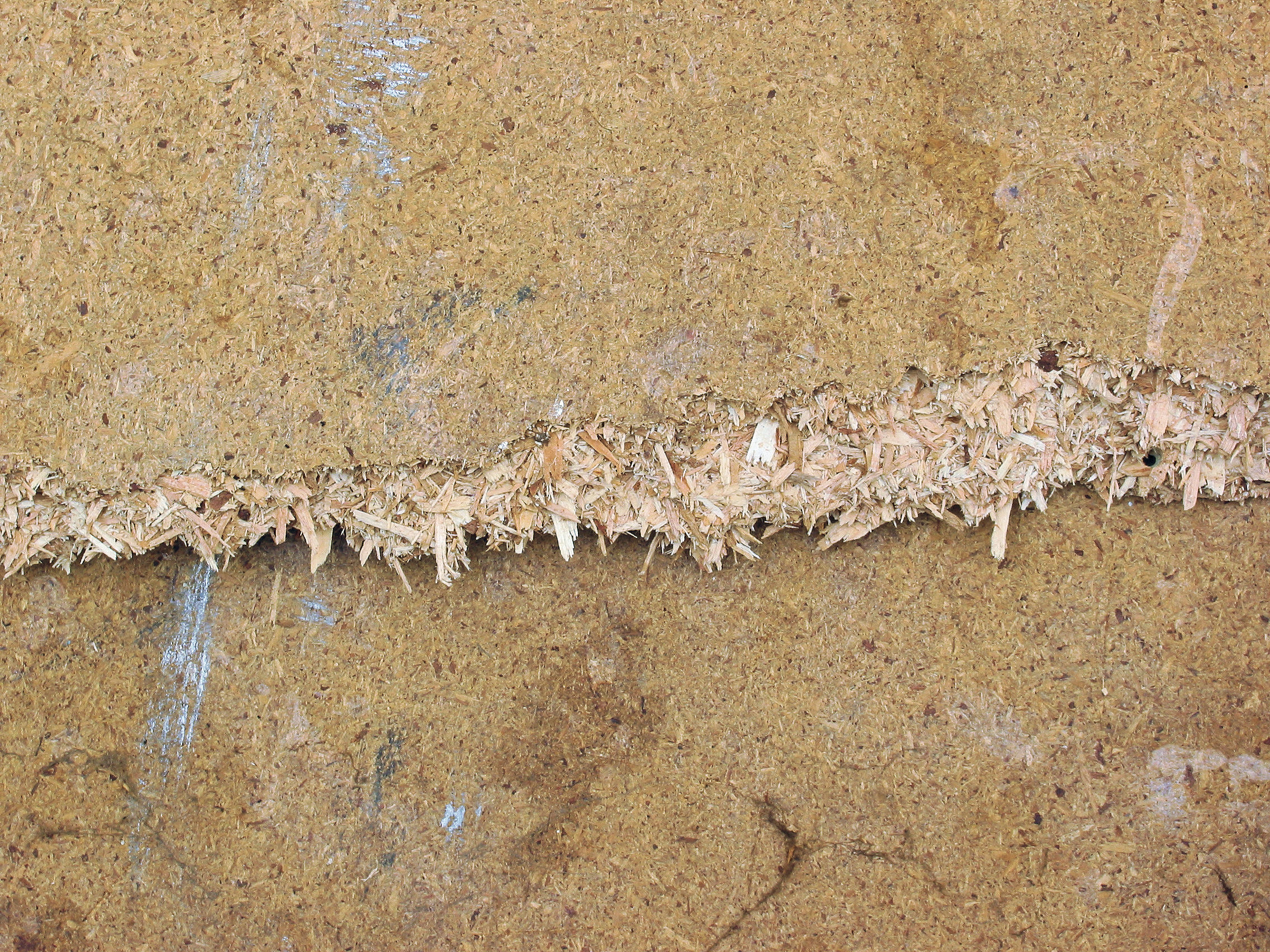 Particle board